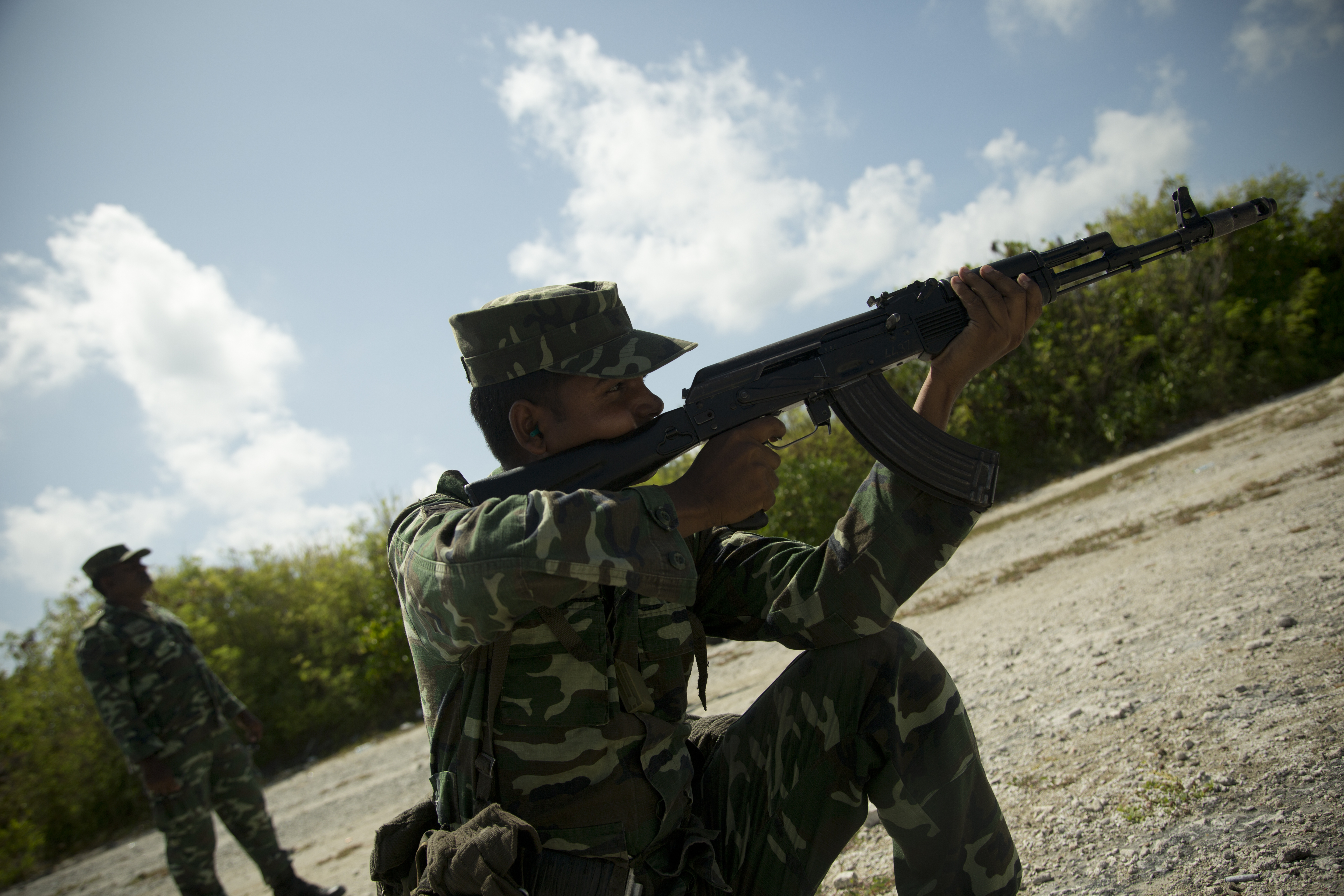 A Maldives National Defense Force (MNDF) service member fires a rifle during an annual rifle qualification on the island of Girifushi, Maldives, Jan. 15, 2014. U.S. Marines with Marine Corps Forces, Pacific observed the training evolution to learn MNDF tactics, techniques and procedures in preparation for an upcoming training event with Maldivian marines.